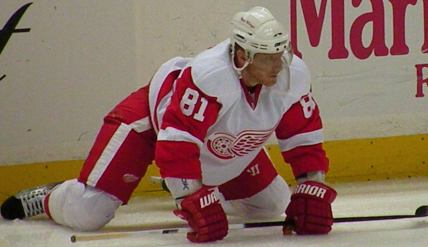 Marian Hossa stretching prior to Gm 4 of Western Conf. Semifinals vs. Ducks